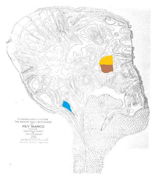 Map of Key Marco showing areas excavated by Pepper-Hearst Expedition (1896), Van Beck (1964), and Widmer (1995). Derived from public domain KeyMarcoMap.jpg.